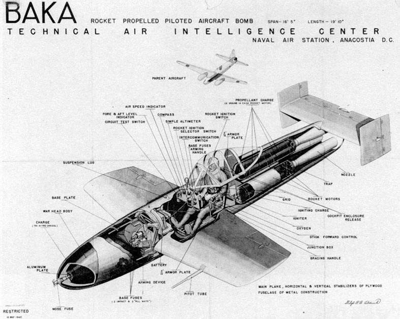 Drawing of a Japanese Yokosuka MXY7 Ohka rocket powered human-guided anti-shipping kamikaze attack plane (Allied code name "Baka").